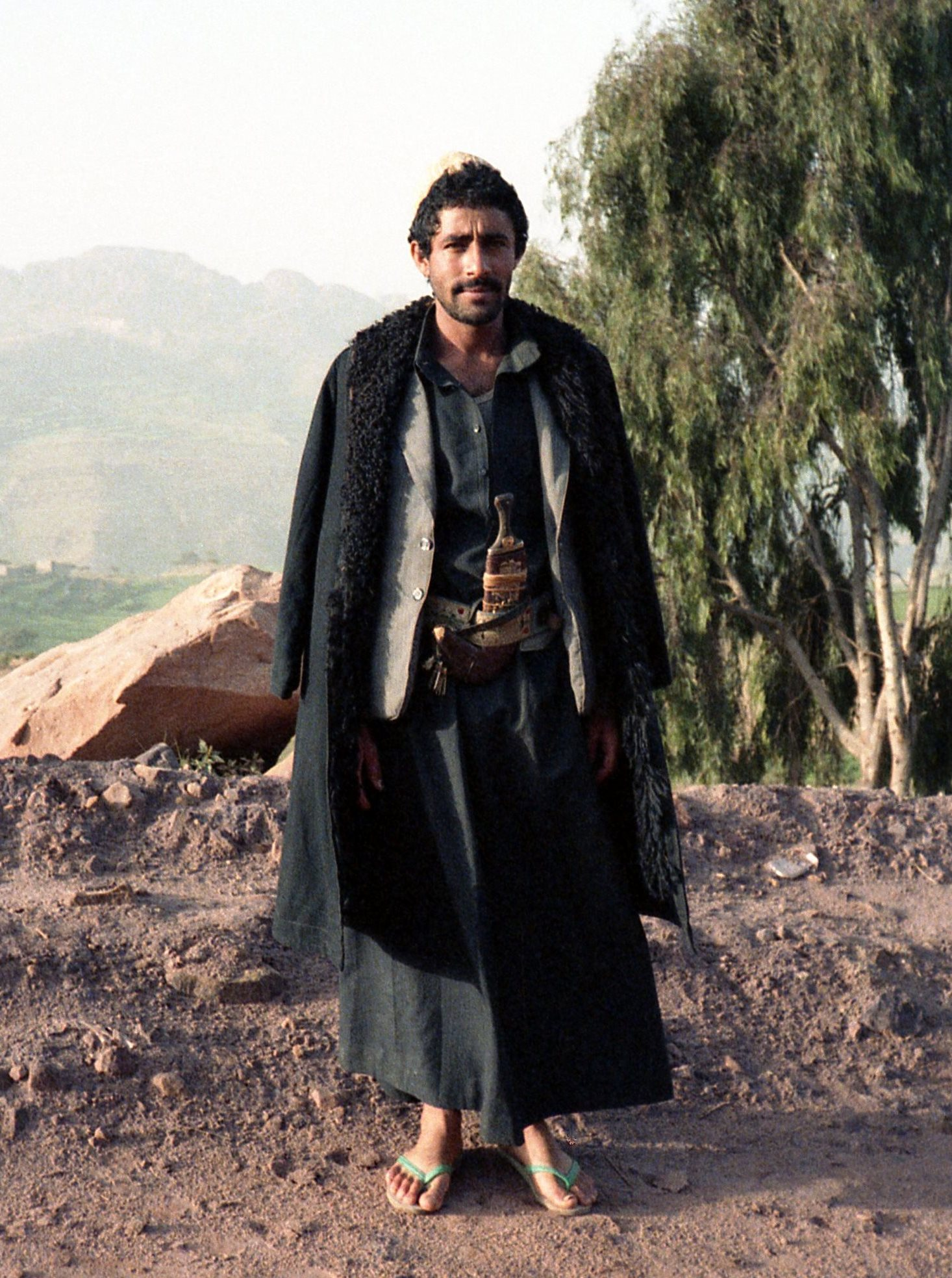 Man wearing a jambiya at At Tawilah, Yemen